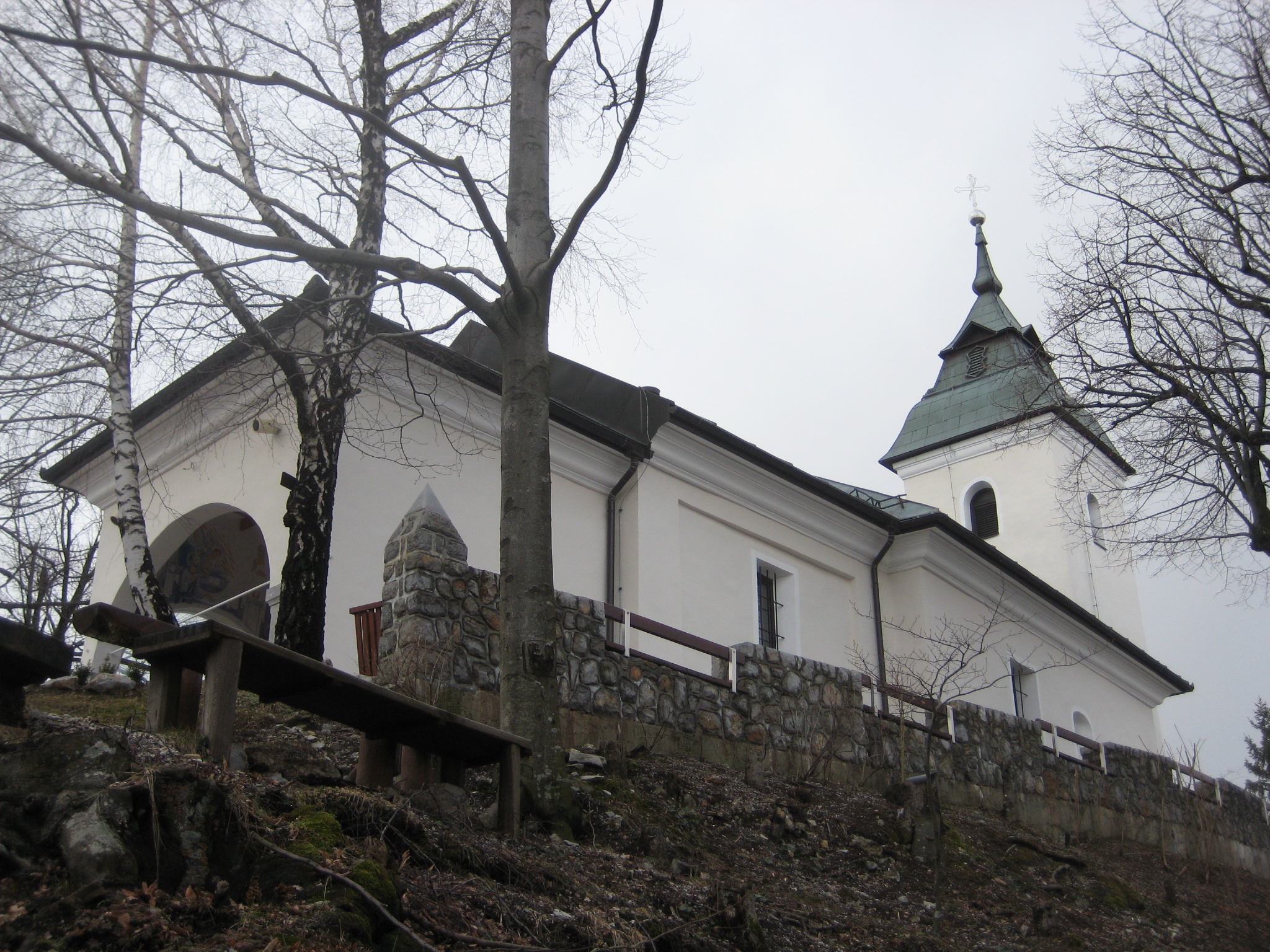 Kurešček, church of st. Mary, Slovenia